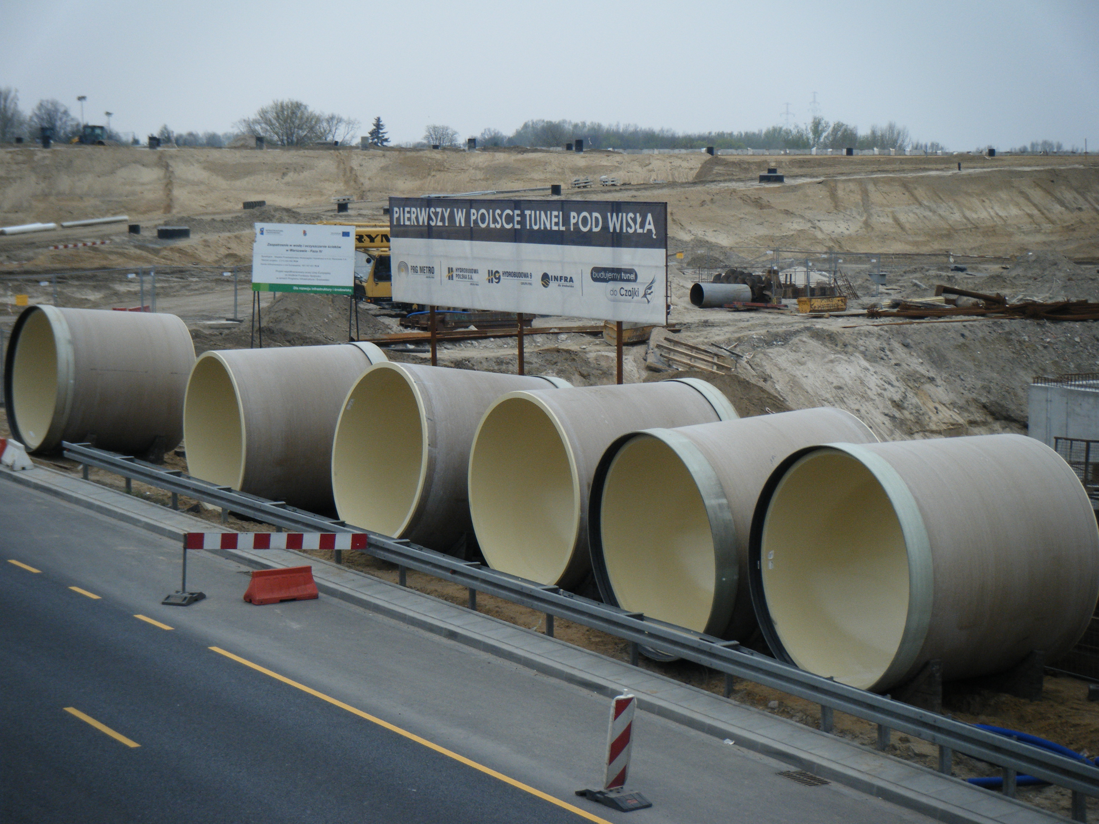 The tunnel to Sewage Treatment "Czajka" in Warsaw (under construction)